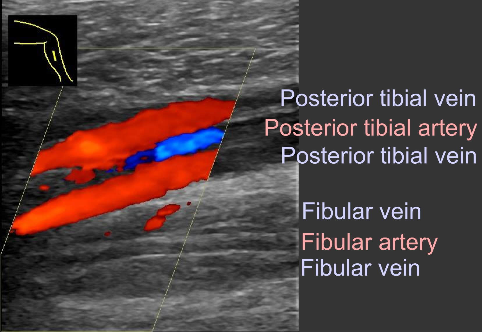 edit Doppler ultrasonography of a 35 year old man who had a cast for 2.5 weeks because of Achilles tendon rupture and started having pain over his calf. It shows deep vein thrombosis of the fibular vein, with hyperechoic content and only marginal blood flow.